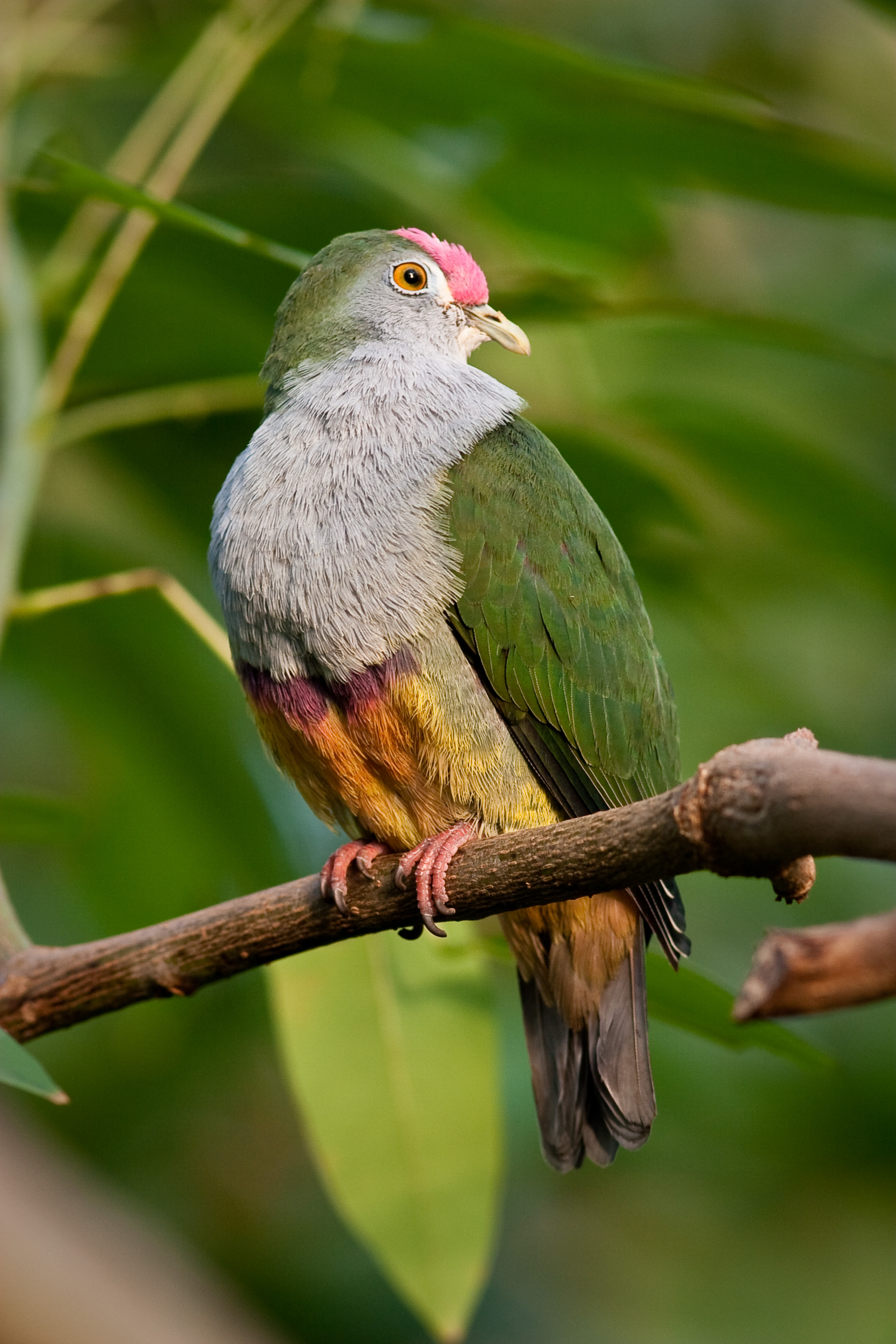 Beautiful Fruit-dove (also known as the Rose-fronted Pigeon and Crimson-capped Fruit-dove) at Artis Zoo, Amsterdam, Netherlands.